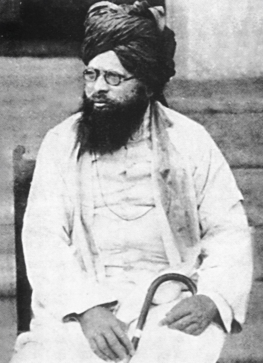 Hadhrat Abd ur-Rahim Nayyar, first missionary in West Africa and companion (Sahaba) of Hadhrat Mirza Ghulam Ahmad